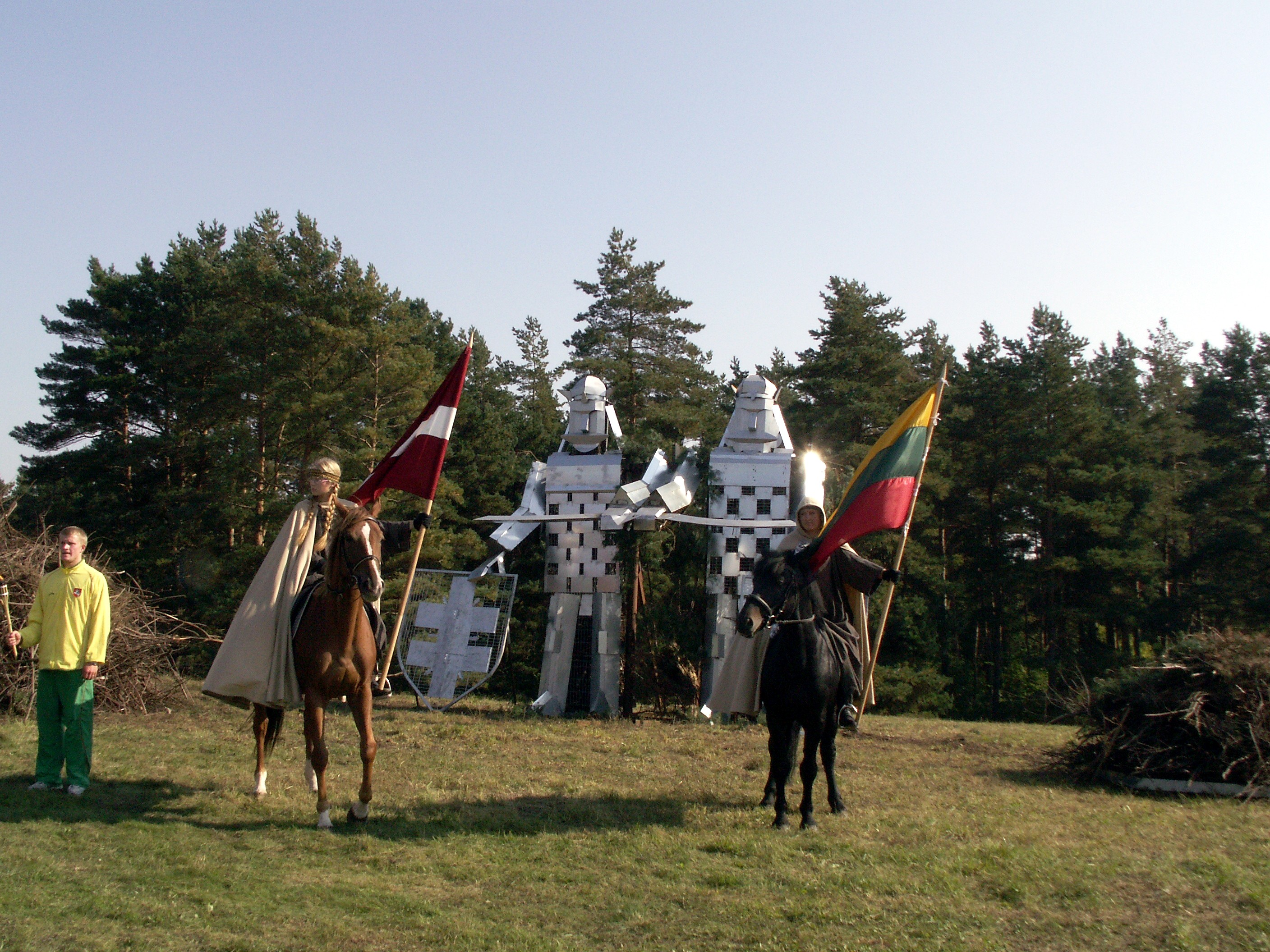 Baltic Unity Day, Salduvė, Šiauliai, LietuvaLietuvių: Baltų vienybės diena, Salduvė, Šiauliai, Lietuva